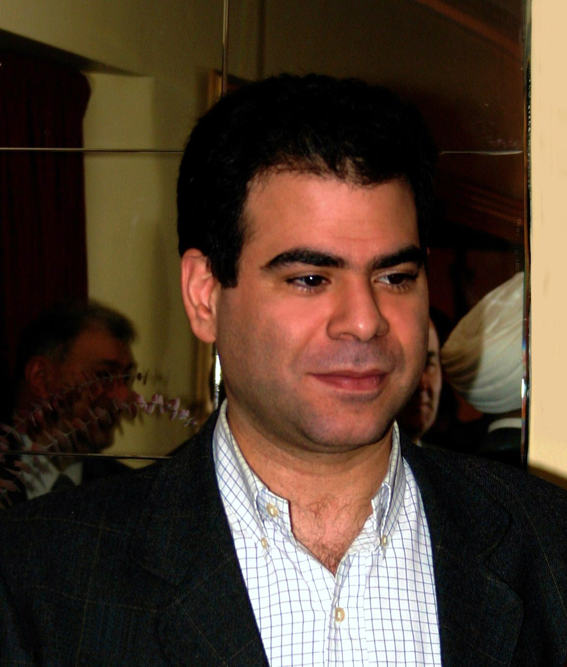 Pierre Amine Gemayel photographed in Montreal by Joe Sioufi